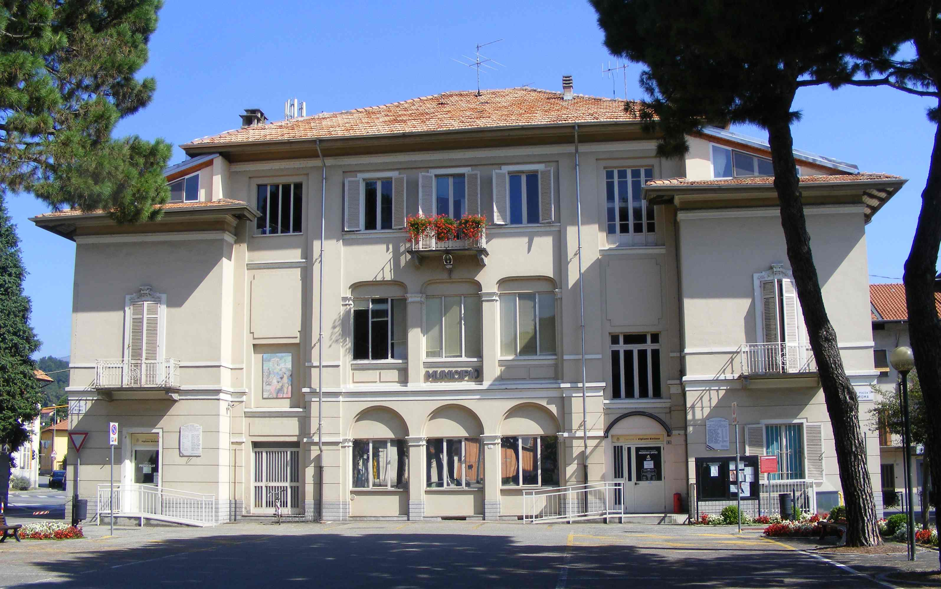 Vigliano Biellese (BI, Italy): town hall